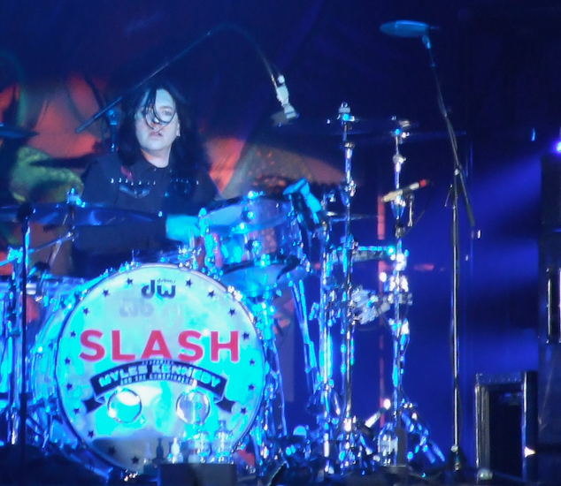 The Canadian rock drummer Brent Fitz performing live with Slash at Festivalna hall, Sofia, during the Apocalyptic Love World Tour 2013.